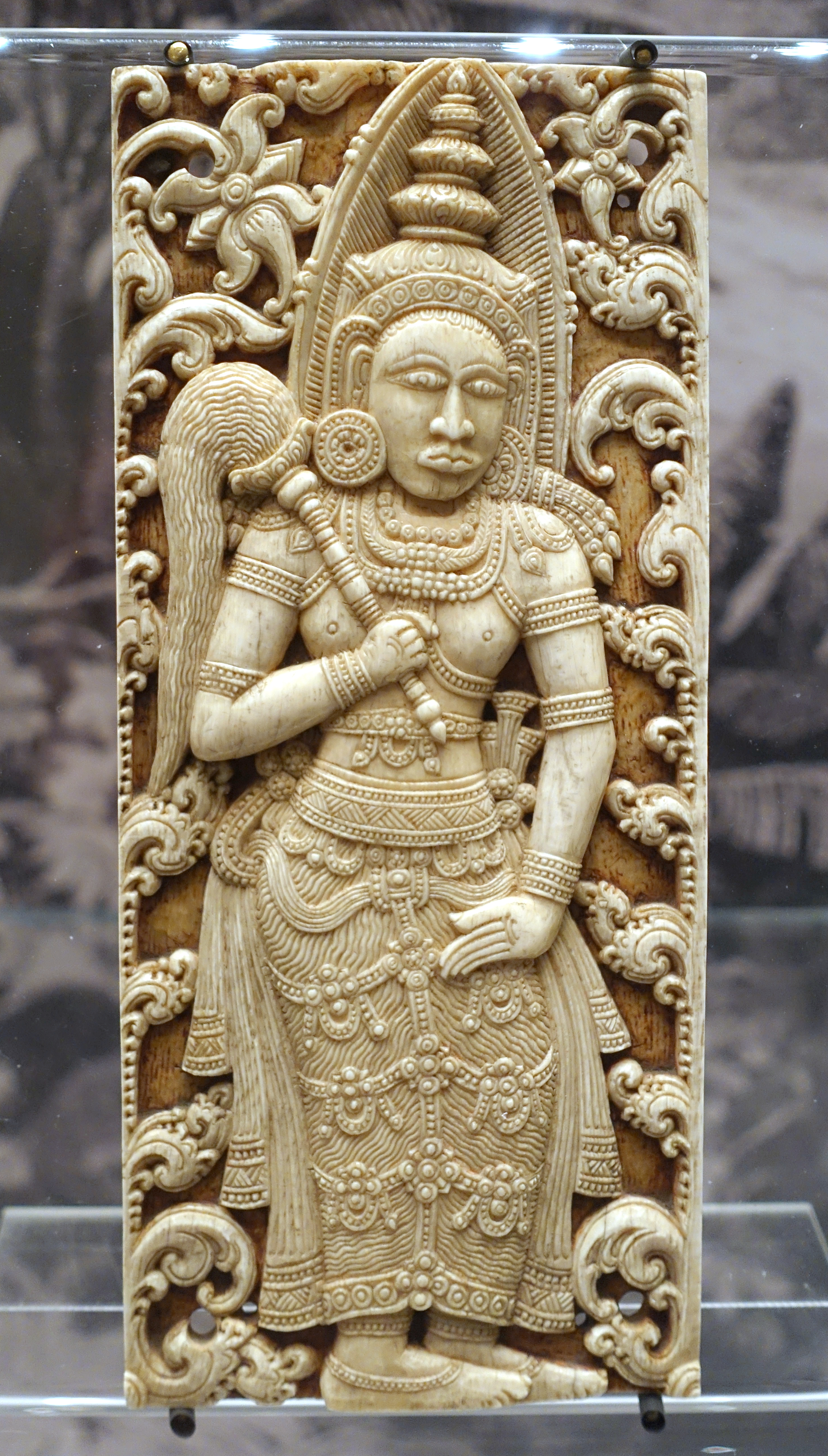 Exhibit in the Ethnological Museum, Berlin, Germany.